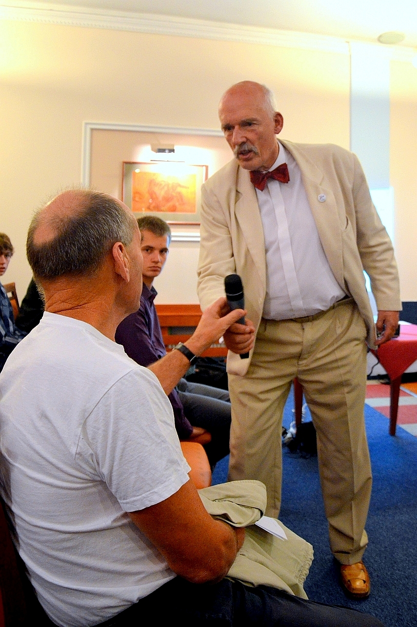 Janusz Korwin-Mikke in Sanok